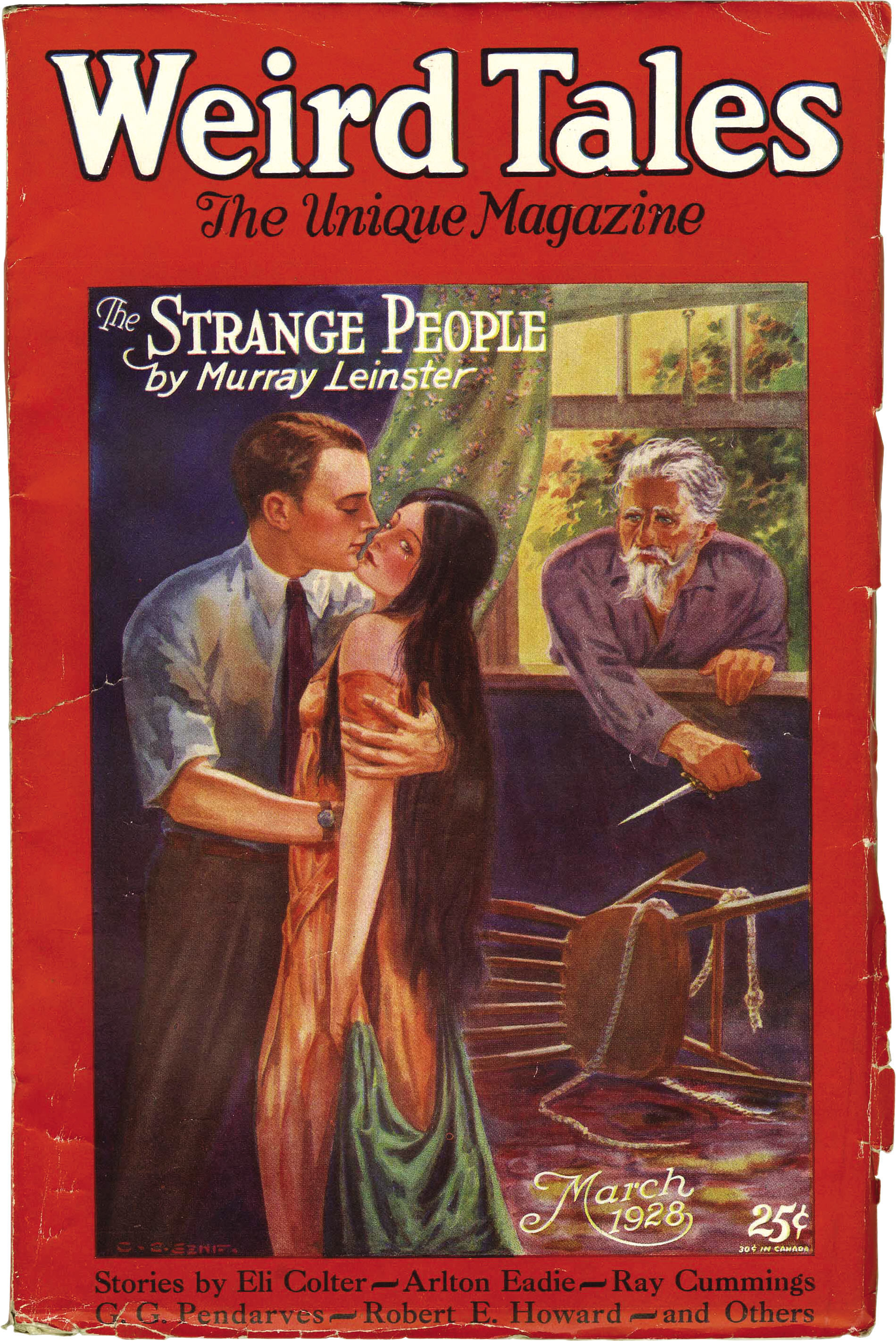 Cover of the pulp magazine Weird Tales (March 1928, vol. 11, no. 3) featuring The Strange People by Murray Leinster. Cover art by C. C. Senf.